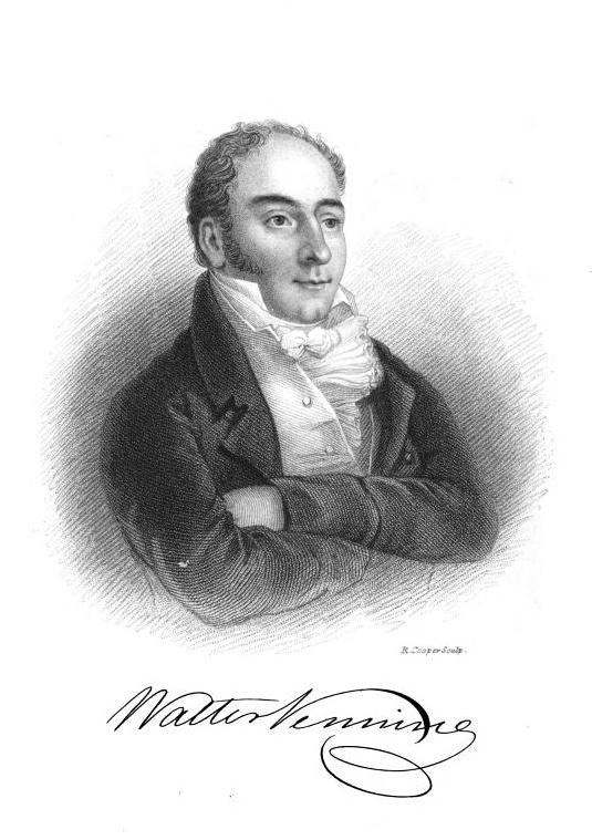 Portrait of Walter Venning (philanthropist) (1781–1821), English merchant and philanthropist interested in prison reform.